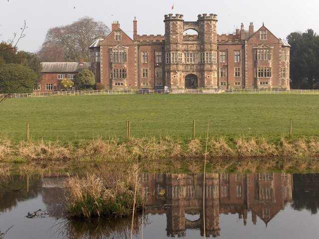 Brereton Hall Grade 1 listed 16th century building - front elevation